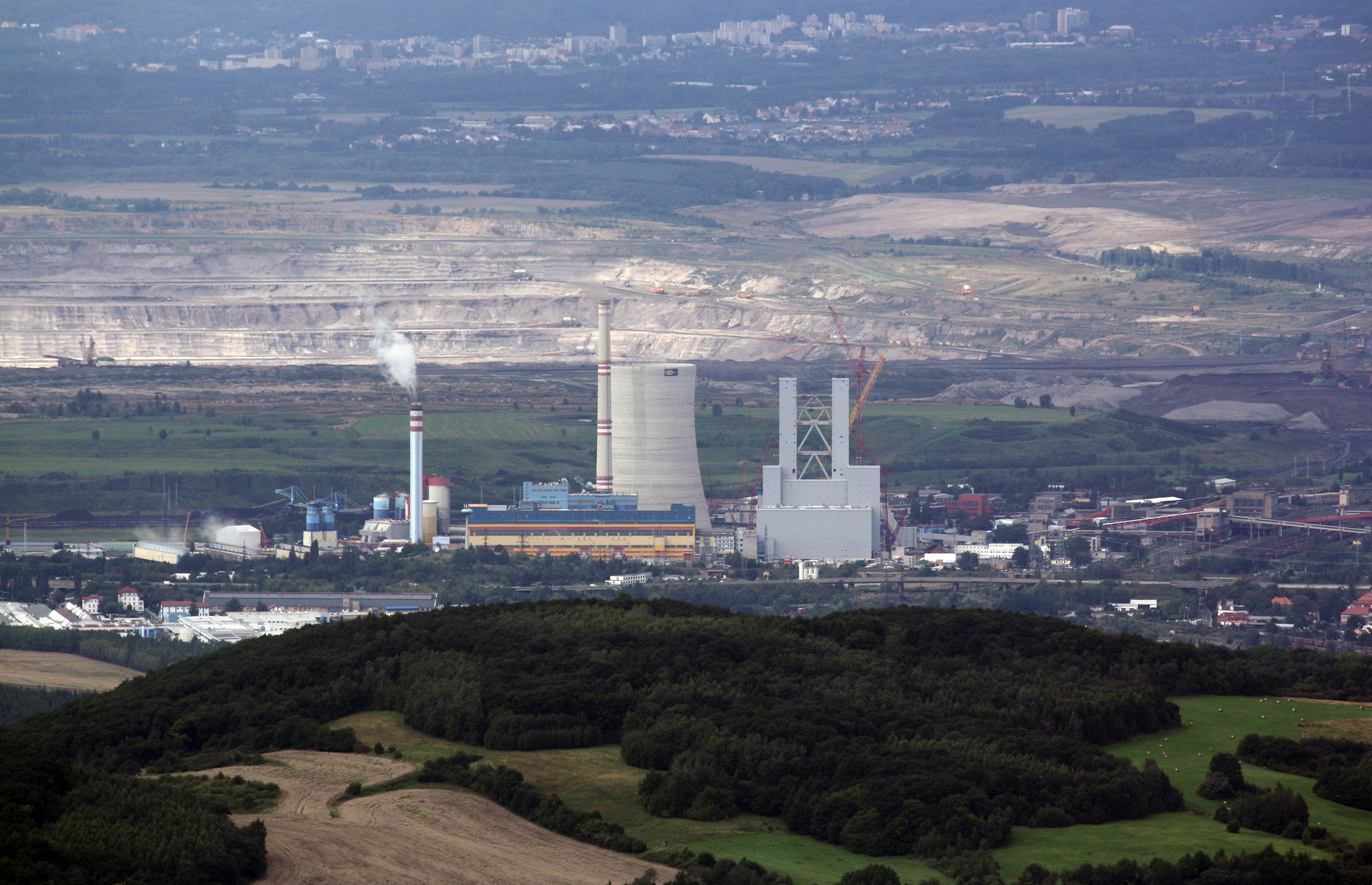 Ledvice power plant as seen from Milešovka Hill, České středohoří, Czech Republic.